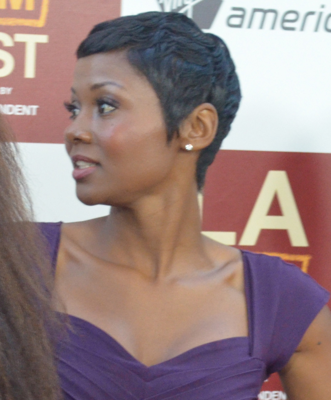 Middle of Nowhere - Sharon Lawrence, Emayatzy Corinealdi and Lorraine Toussaint